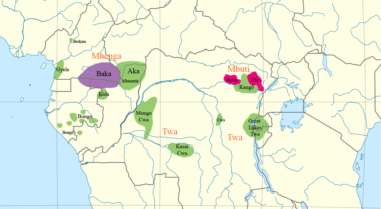 The distribution of Pygmy languages according to Bahuchet (2006). Green: Bantu, purple: Ubangian, red: Sudanic.